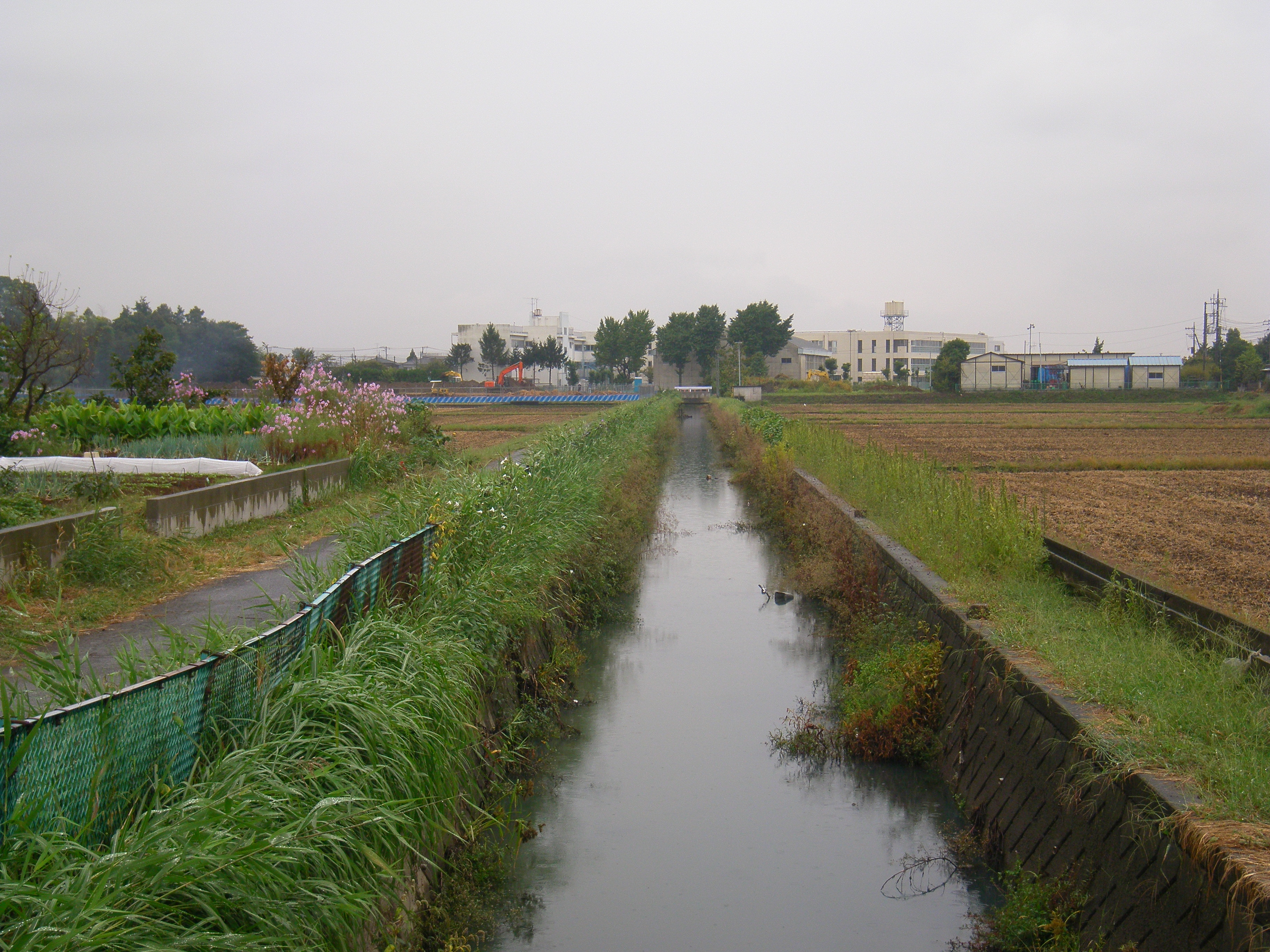 Shin-kawa River and Mamiya junior highschool. West ward (Nishi-ku), Saitama, Saitama prefecture, Japan.